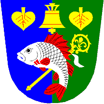 Coat of arms of Urbanice (city in Czechia)